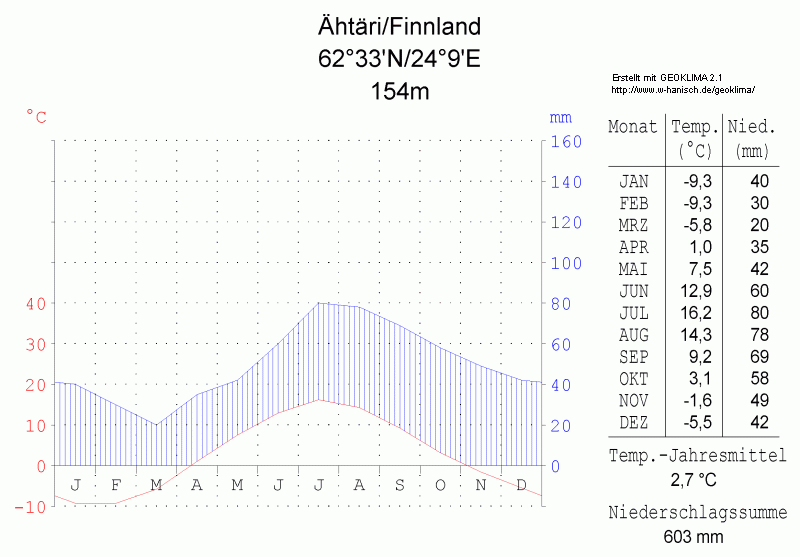 climate chart in the format by Walther and Lieth, metric, °Celsisus and millimeters, made with Geoklima 2.1